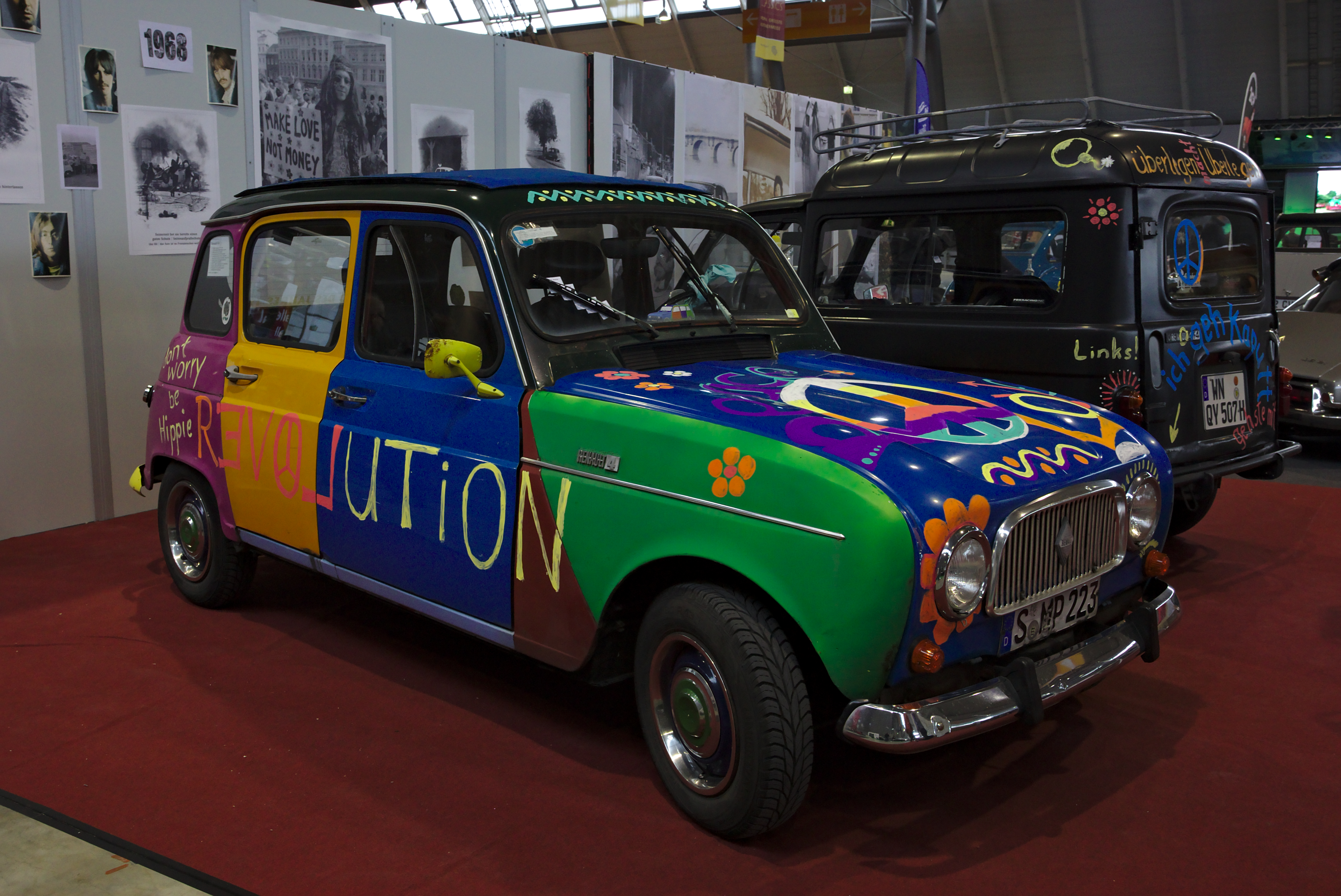 Renault 4 at Retro Classics 2018